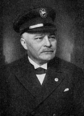 German automobile manufacturer Max Wenkel